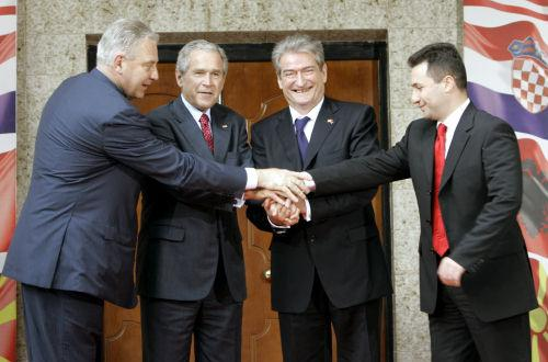 Adriatic group with US President George W. Bush